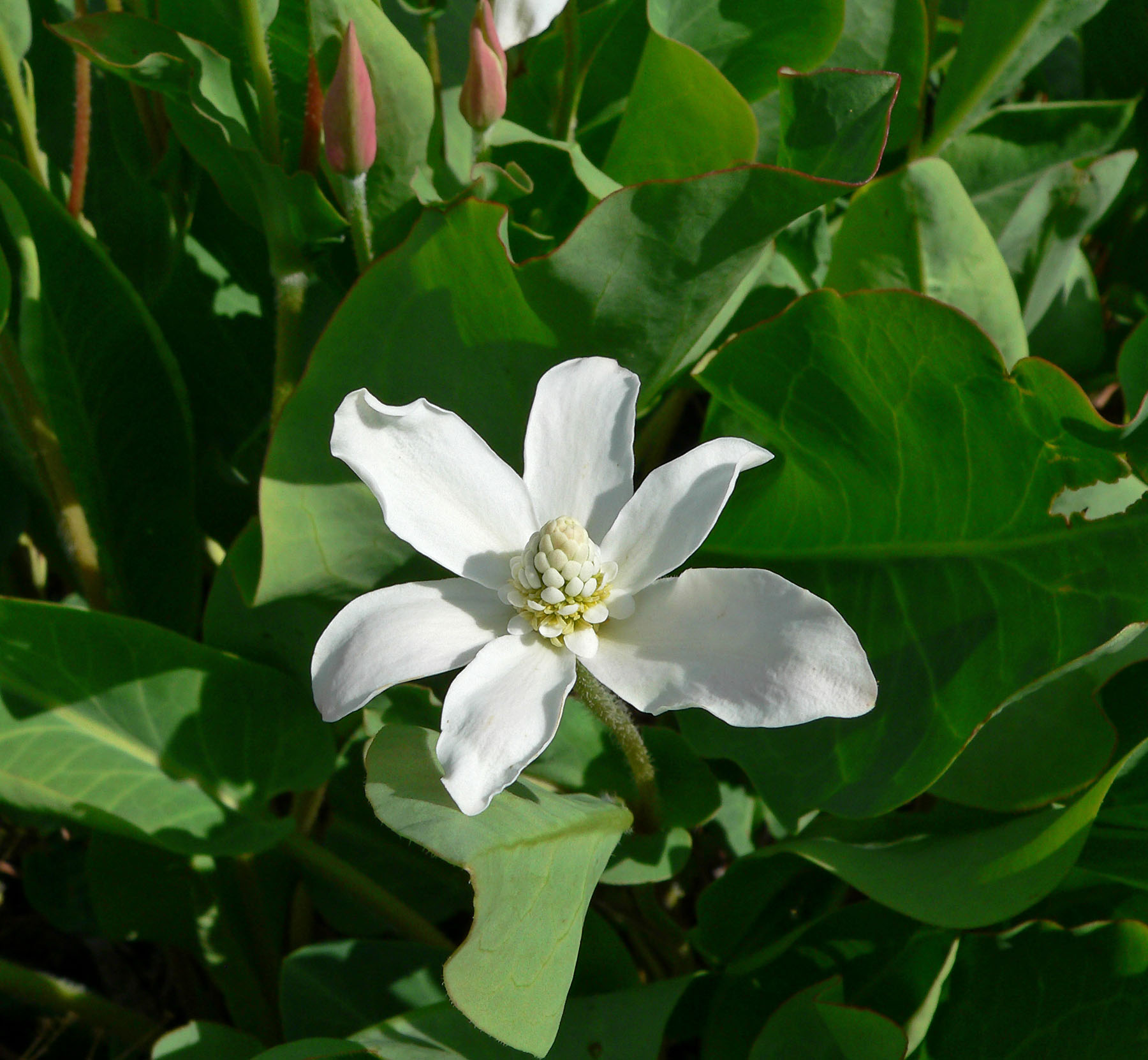 Anemopsis californica in Moapa Valley near Warm Springs, southern Nevada